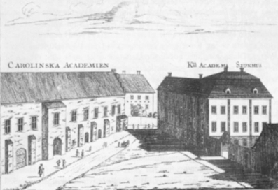 Engraving of the medieval chapter building at Uppsala cathedral, "Academia Carolina", Sweden.